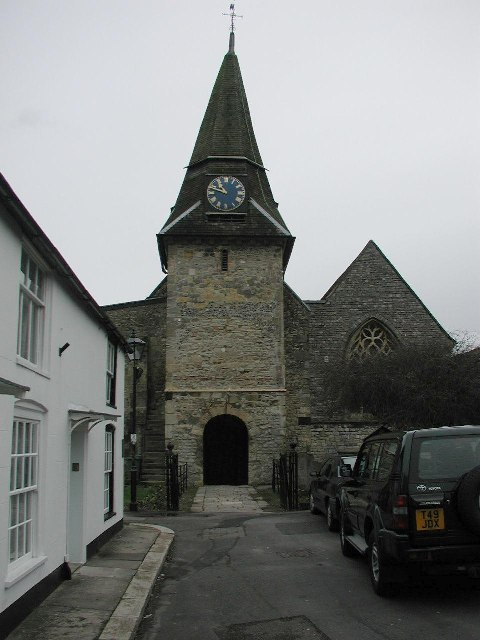 Titchfield, Hampshire, St Peter's Parish church.